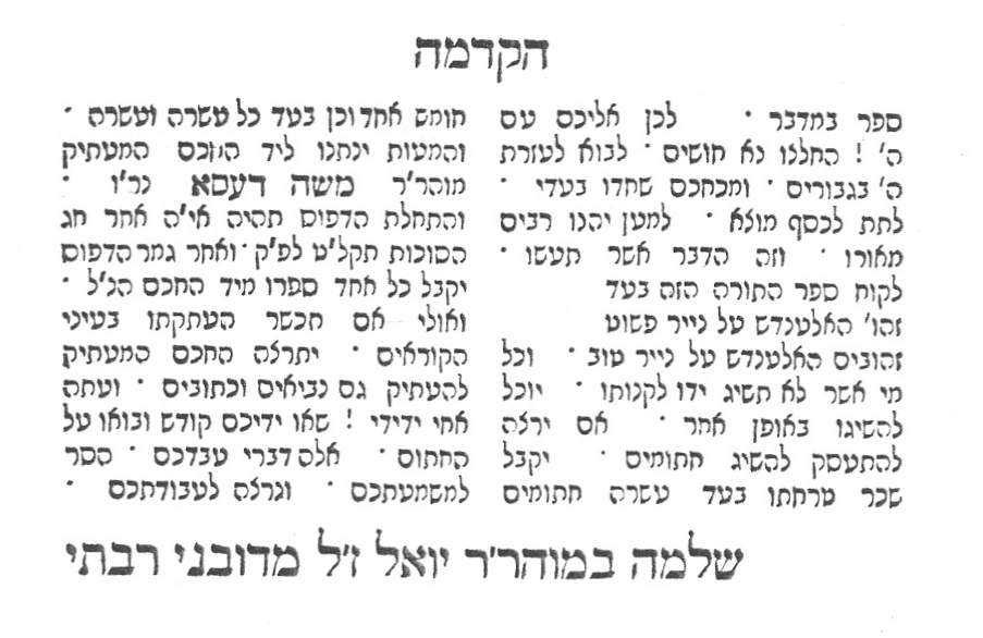 The end of "Alim LiTrufa", a prospect for Moses Mendelssohn's commentary on the pentateuch (Bi'ur).